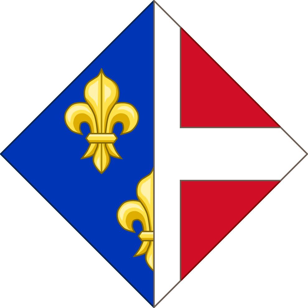 CoA of the queen Charlotte of Savoy, wife of Louis XI. To improve if necessary.